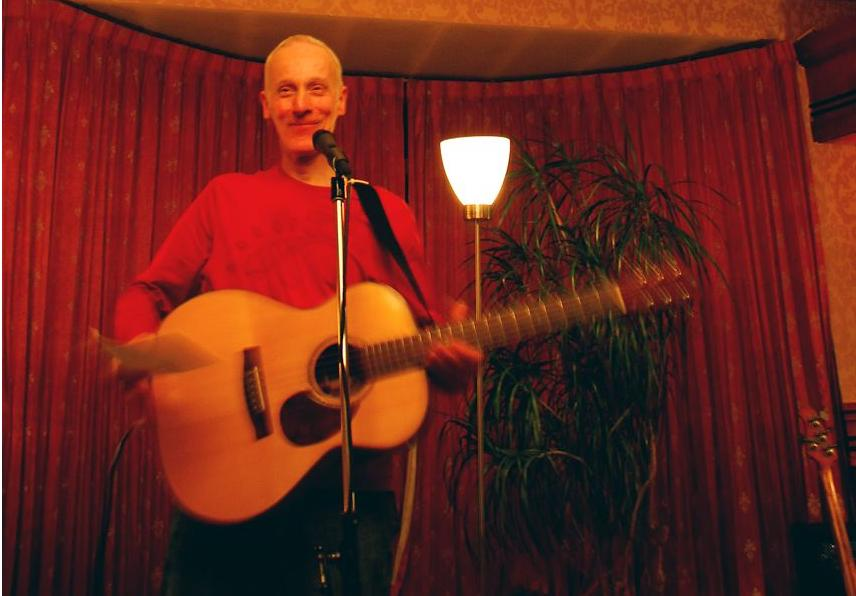 Sido Martens, Dutch artist